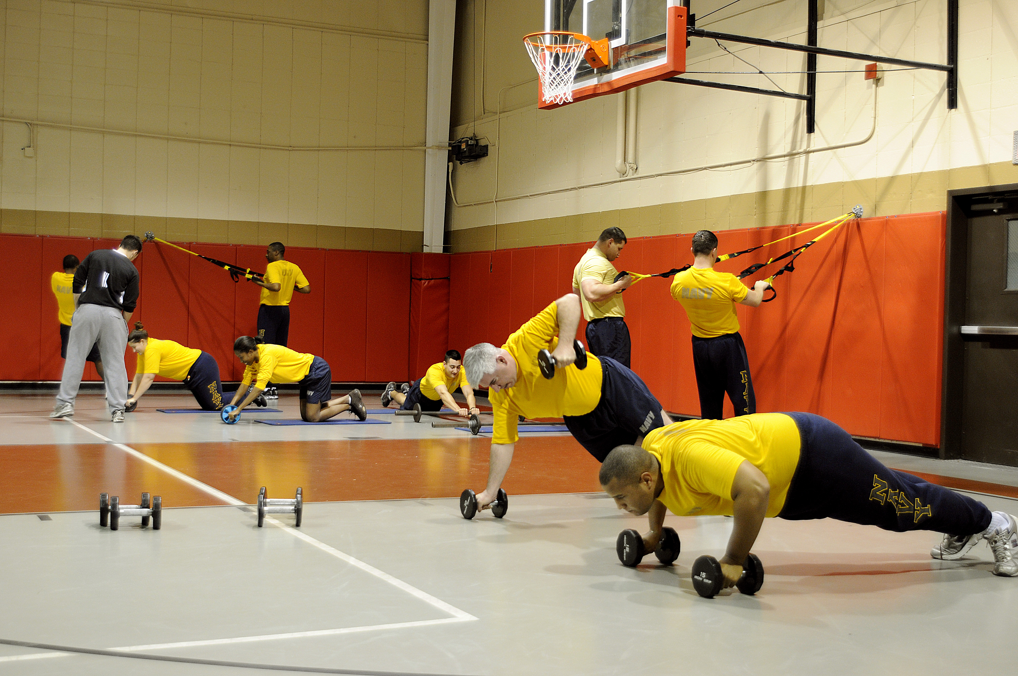 CHARLESTON, S.C. (Jan. 28, 2011) Sailors participate in circuit training provided by physical trainer, Riley Phelps, during a morning group physical training session at Joint Base Charleston-Weapons Station. Circuit training allows personnel to focus on a specific muscle group through various workouts, which will help build endurance over time. (U.S. Navy photo by Mass Communication Specialist 1st Class Jennifer Hudson/Released)